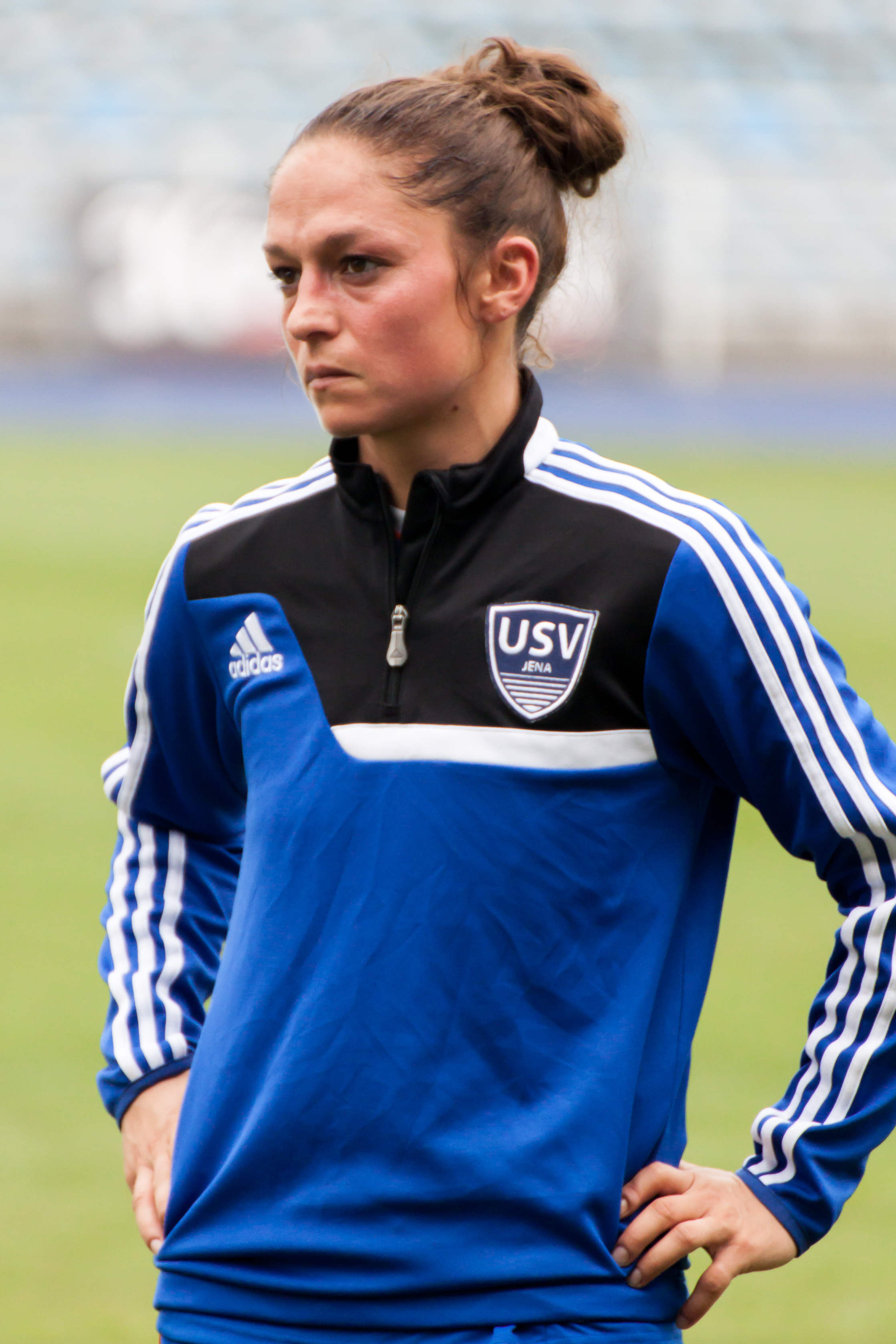 German Women Bundesliga soccer game: FF USV Jena vs. TSG 1899 Hoffenheim, 2014-10-11, at Ernst-Abbe-Sportfeld Jena.